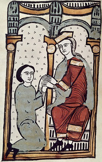 Count Arnau Mir of Pallars Jussá and his vassal Ramón d'Eril